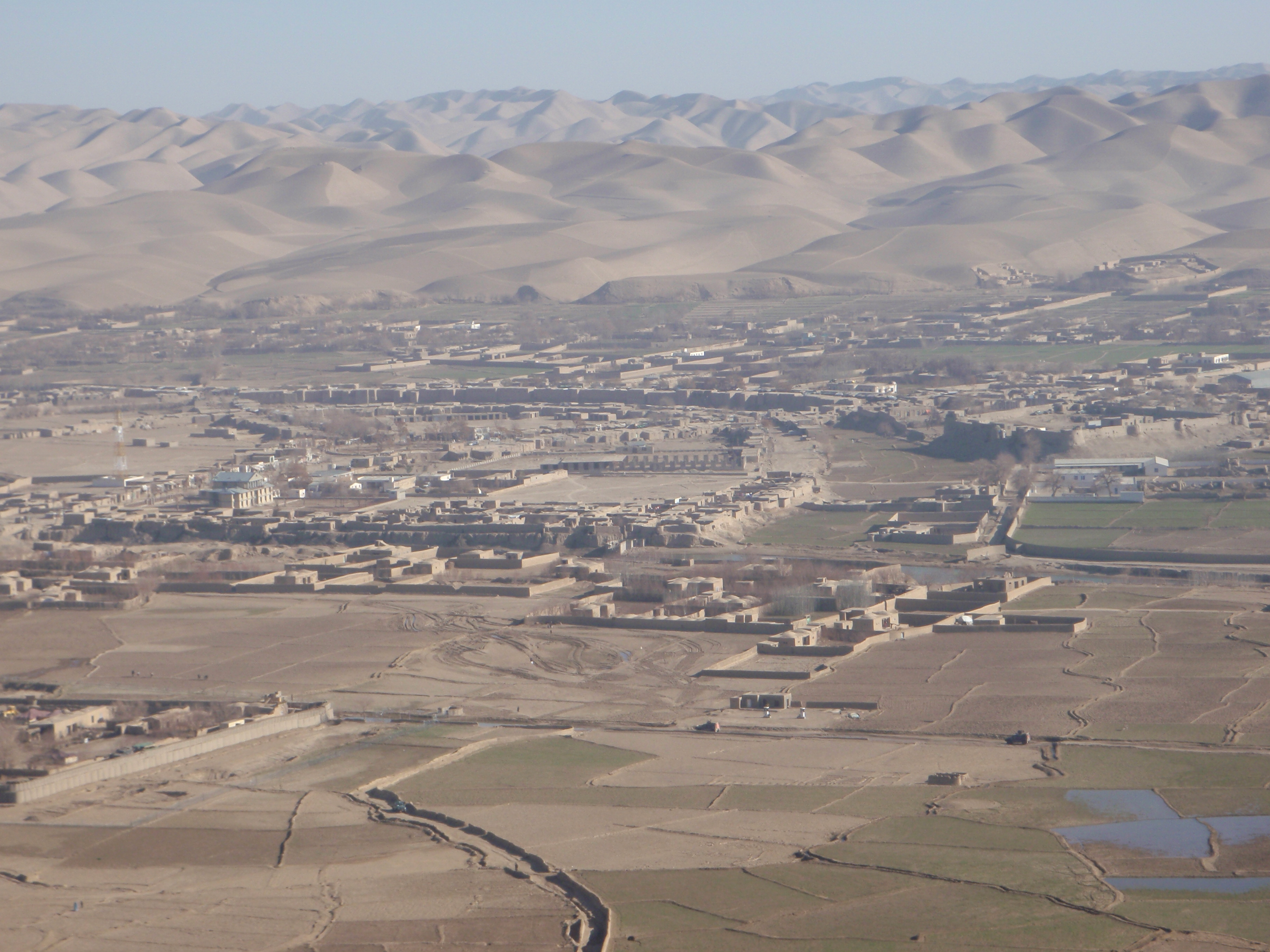 View of Bala Morghab, in Morghab river valley, Afghanistan